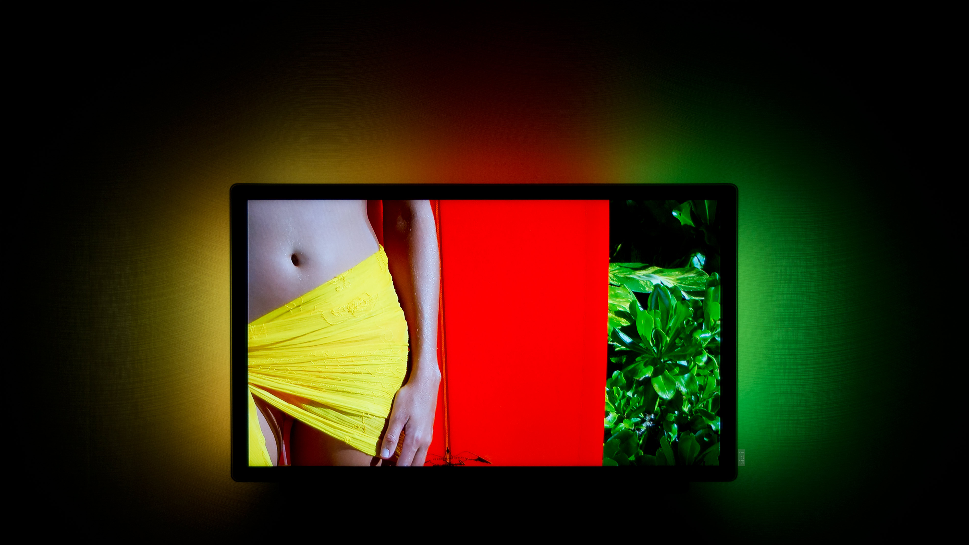 Philips 46PFL9705H Ambilight Spectra 3 preview